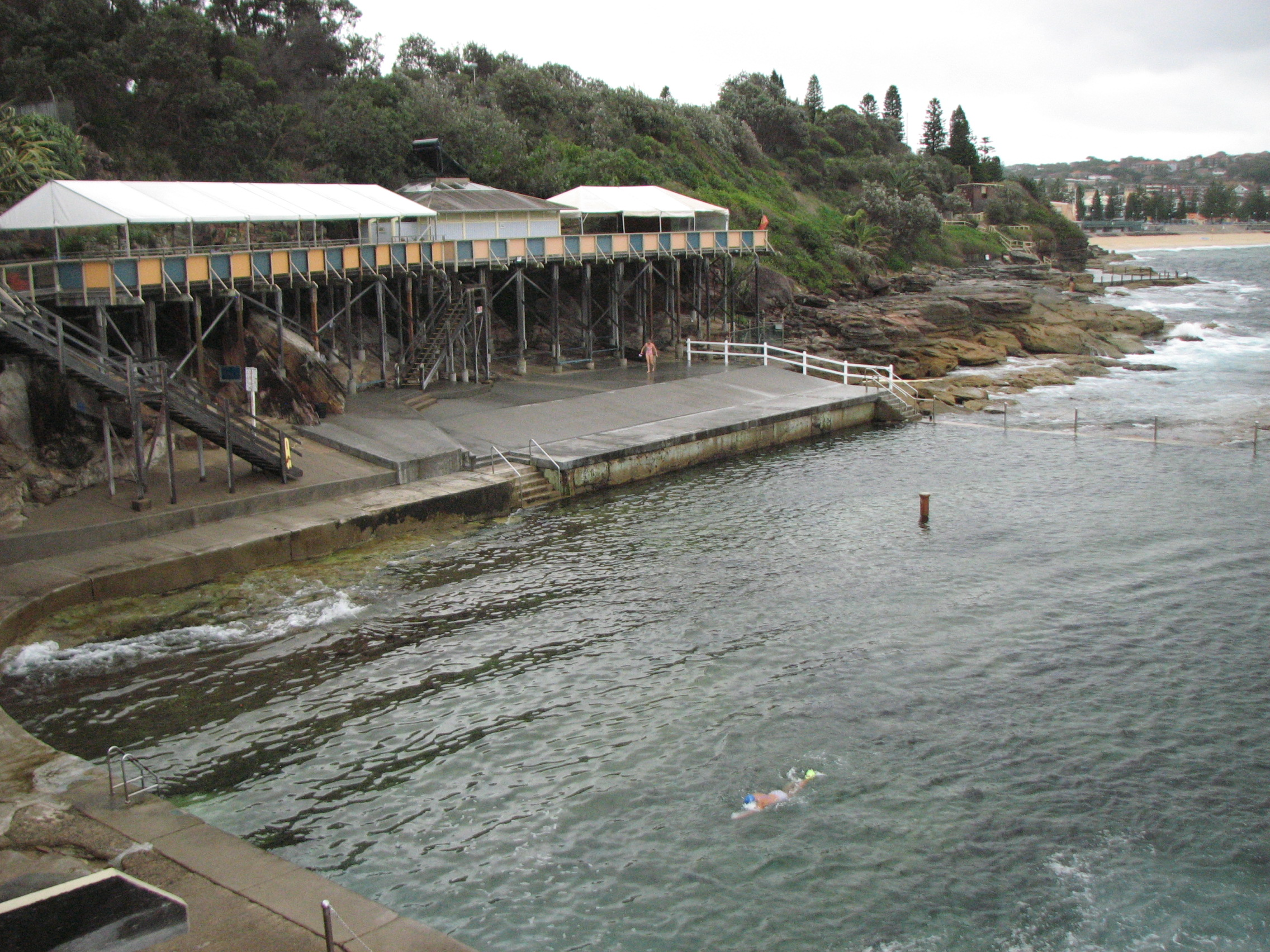 Wylie's Baths is listed on the New South Wales Heritage Register